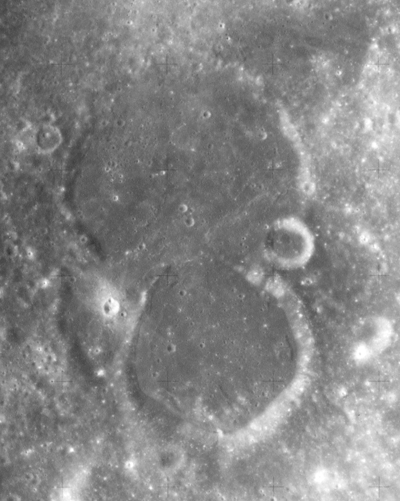 Kao (above center) and Helmert (below center), on the moon.